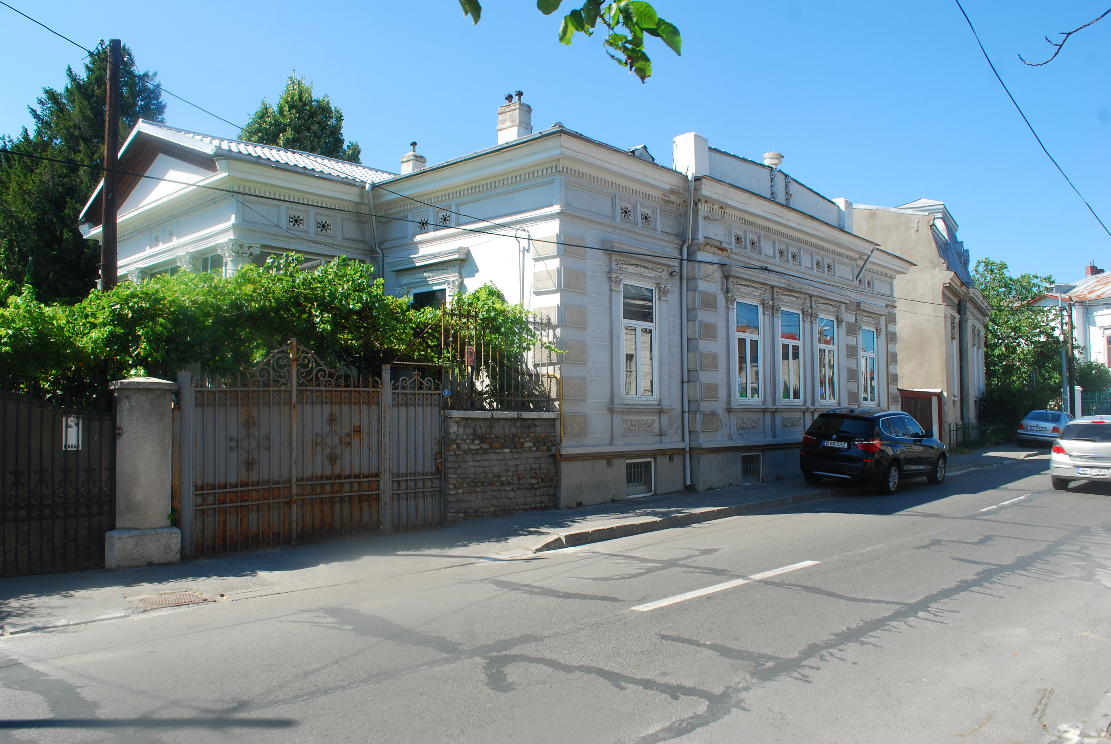 Gărdăreanu house, 30 Alexandru Macedonski street, Craiova, Romania